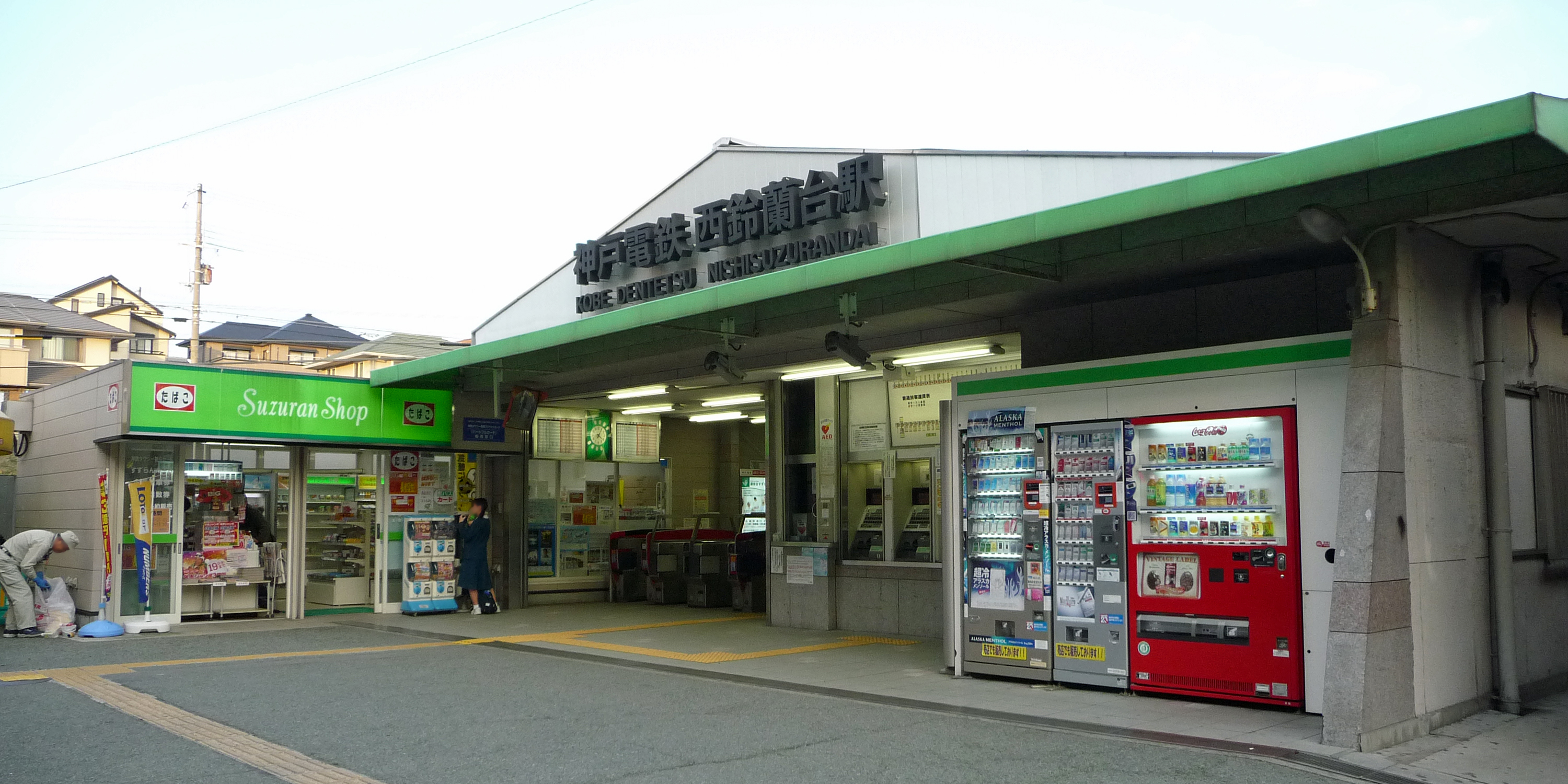 Nishi-Suzurandai Staion, Kobe Electric Railway.